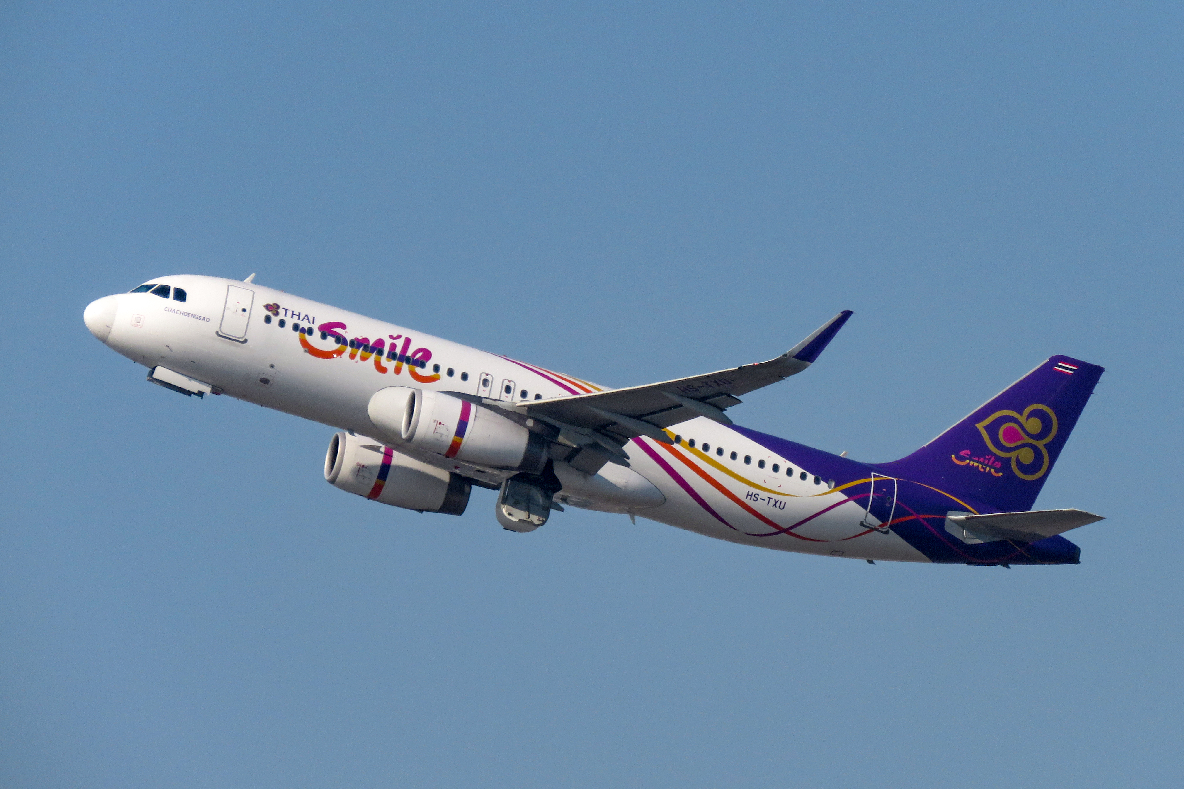 Thai Smile 631 to Bangkok.